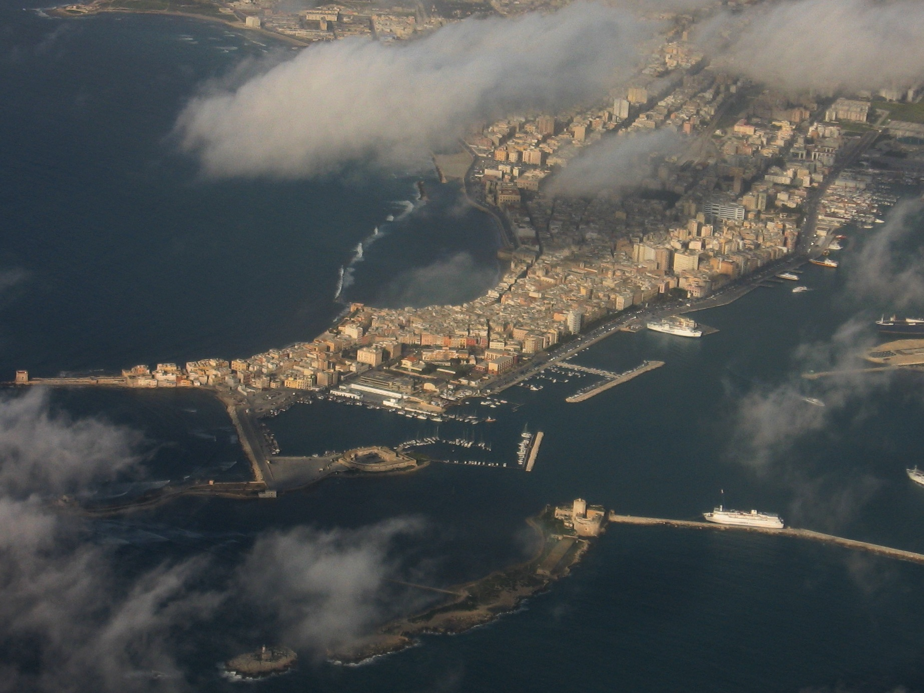 Trapani